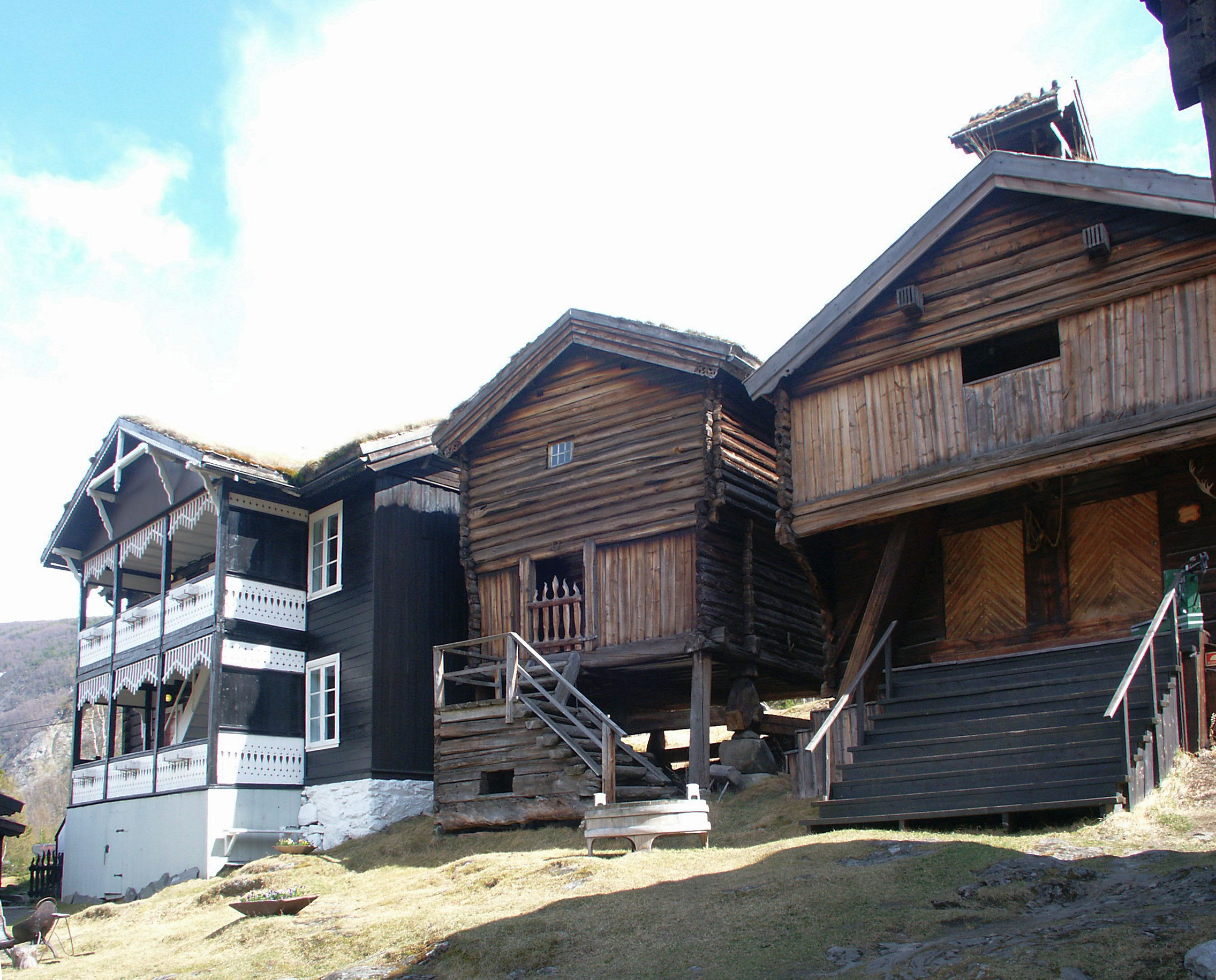 Røishem hotel from 18th century, Lom municipality. Oppland county, Norway